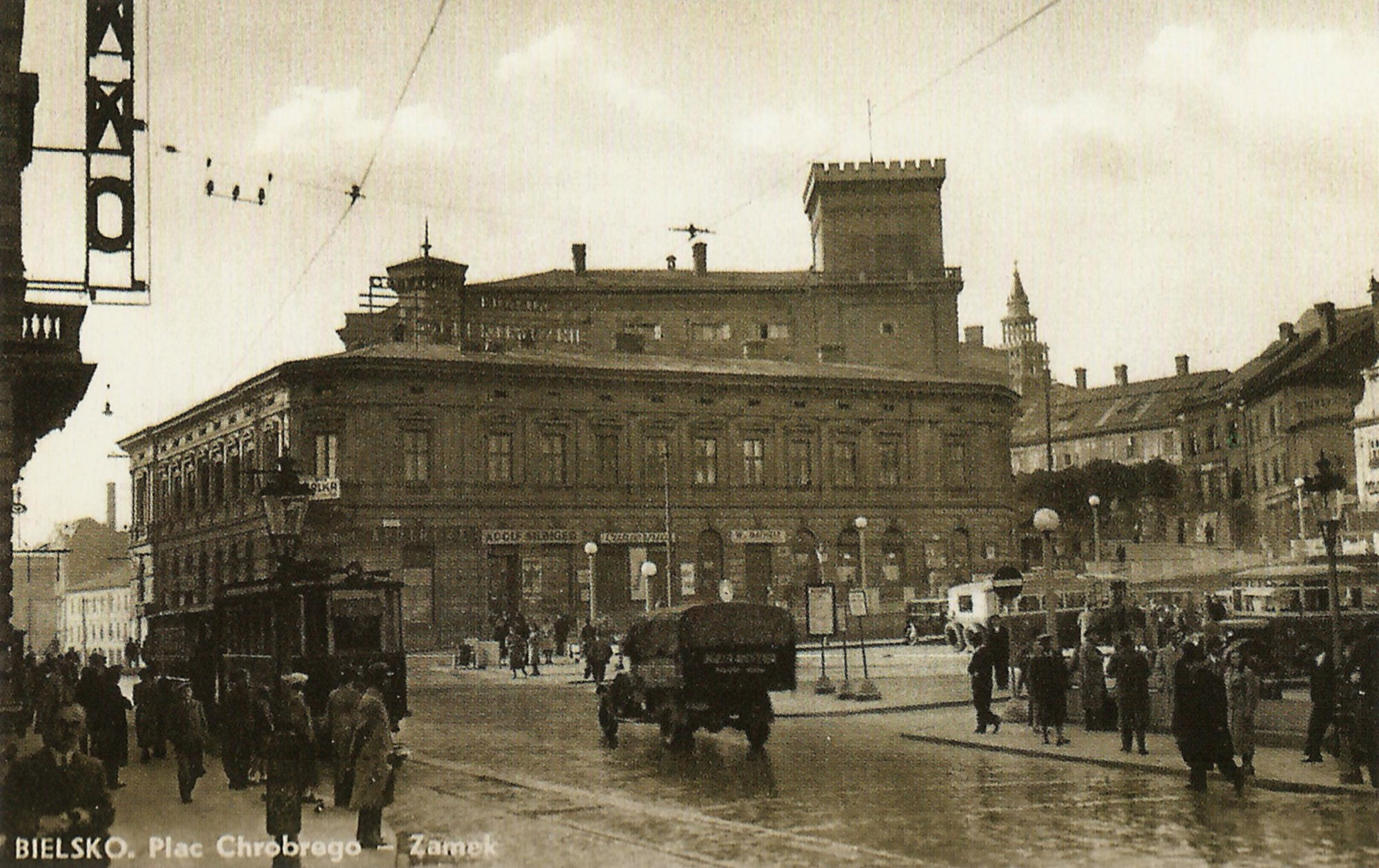 Castle Markets (built in 1899, destroyed in 1974) in Bielsko-Biała, Poland in 1930s.